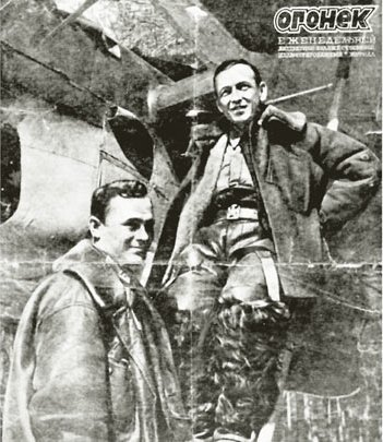 Endel Puusepp on the cover of the Ogonyok magazine.